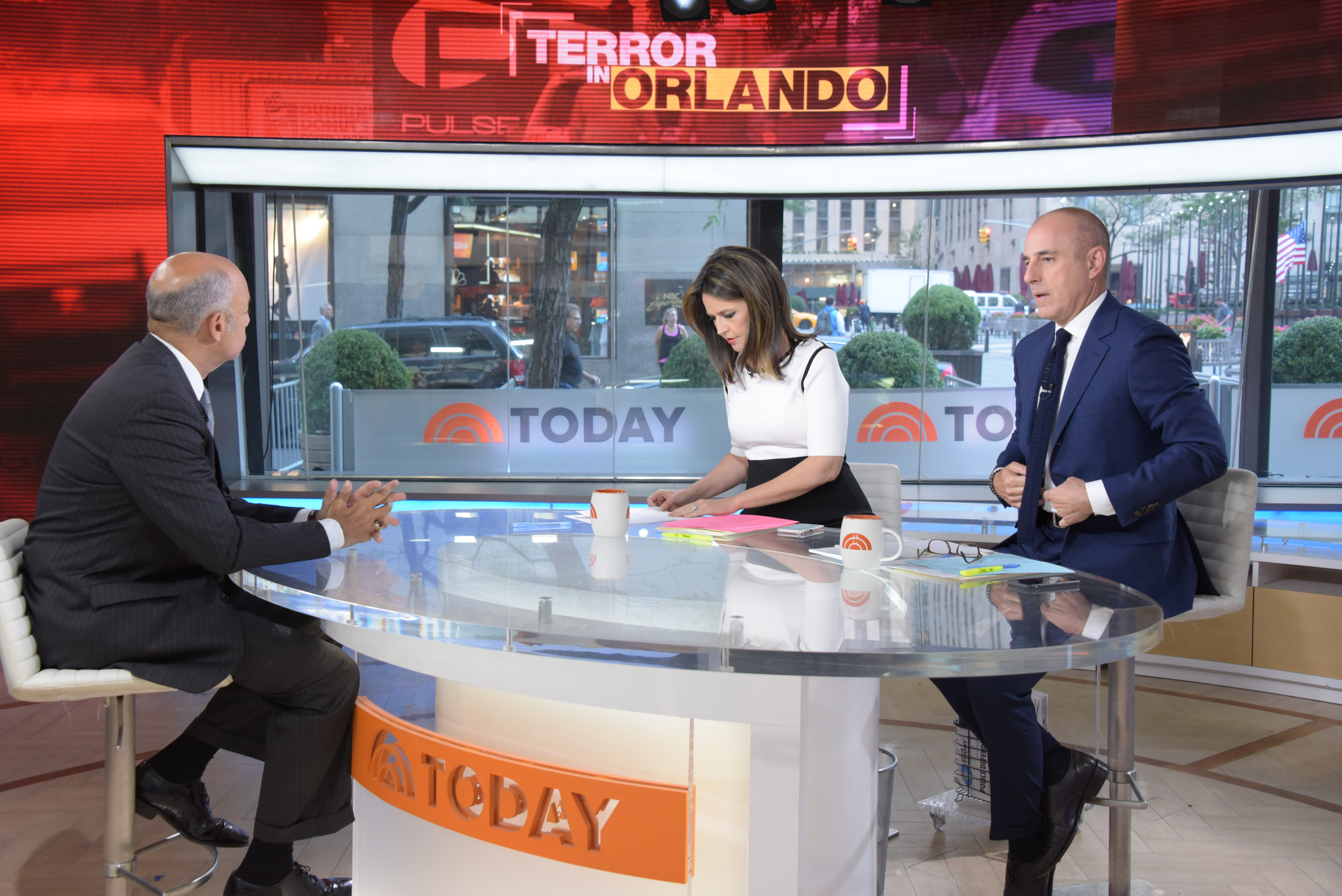 NEW YORK - Secretary of Homeland Security Jeh Johnson travels to New York City for interviews from national morning news shows as a result of the shooting incident in Orlando earlier in the week, June 14, 2016. While in NYC, Secretary Johnson also met with Commissioner Bill Bratton and other key leadership of the New York Police Department. Official DHS photo by Jetta Disco.